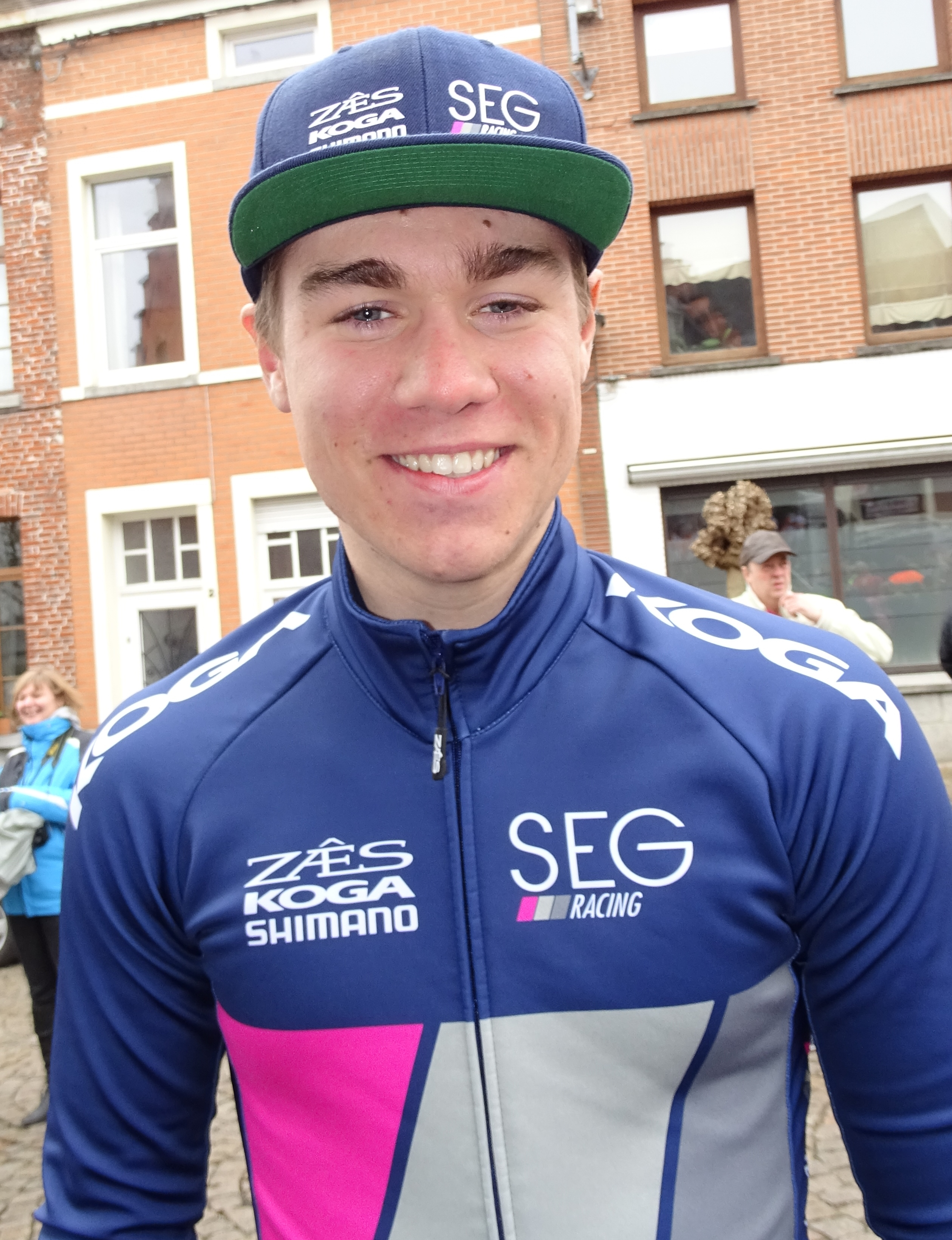 Triptyque des Monts et Châteaux 2015 Depicted person: Fabio Jakobsen Depicted team: SEG Racing